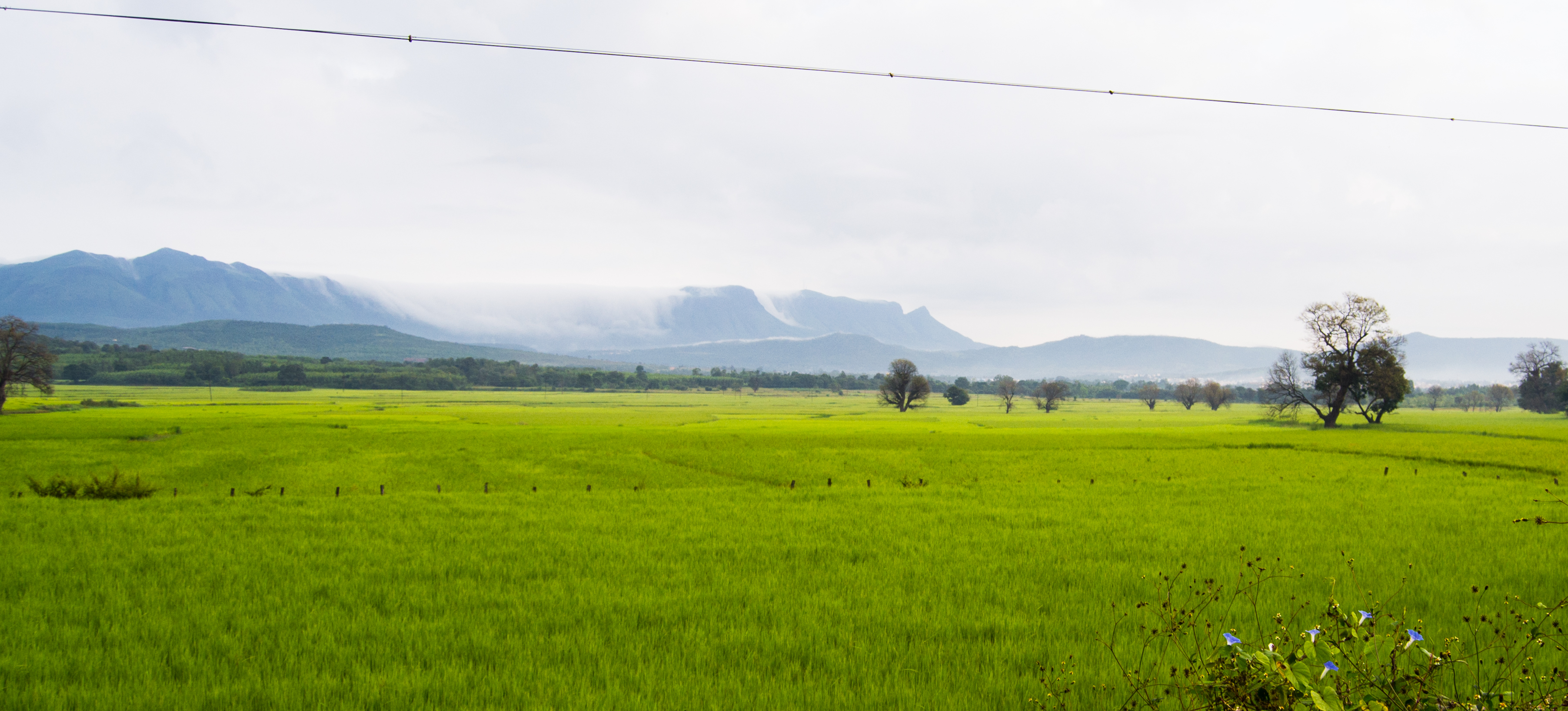 A view of Mullayanagiri and Bababudangiri hills in Chikkamagaluru.